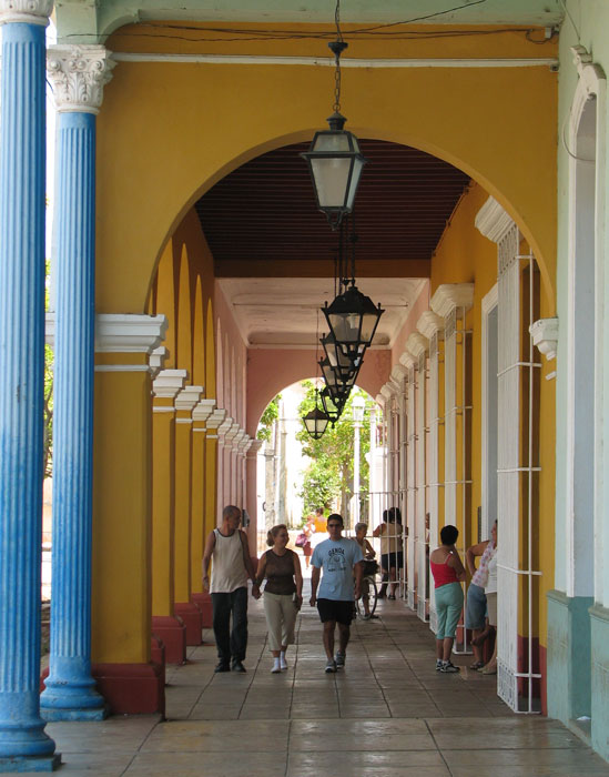 Wilder - my own stock